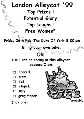 London Alleycat Flier Feb 1999